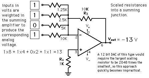 Esquema de um DAC com pesos em binário em paralelo.